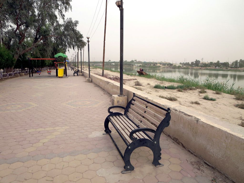 Nasiriyah City, Iraq, has a pleasant promenade along the Euphrates River.